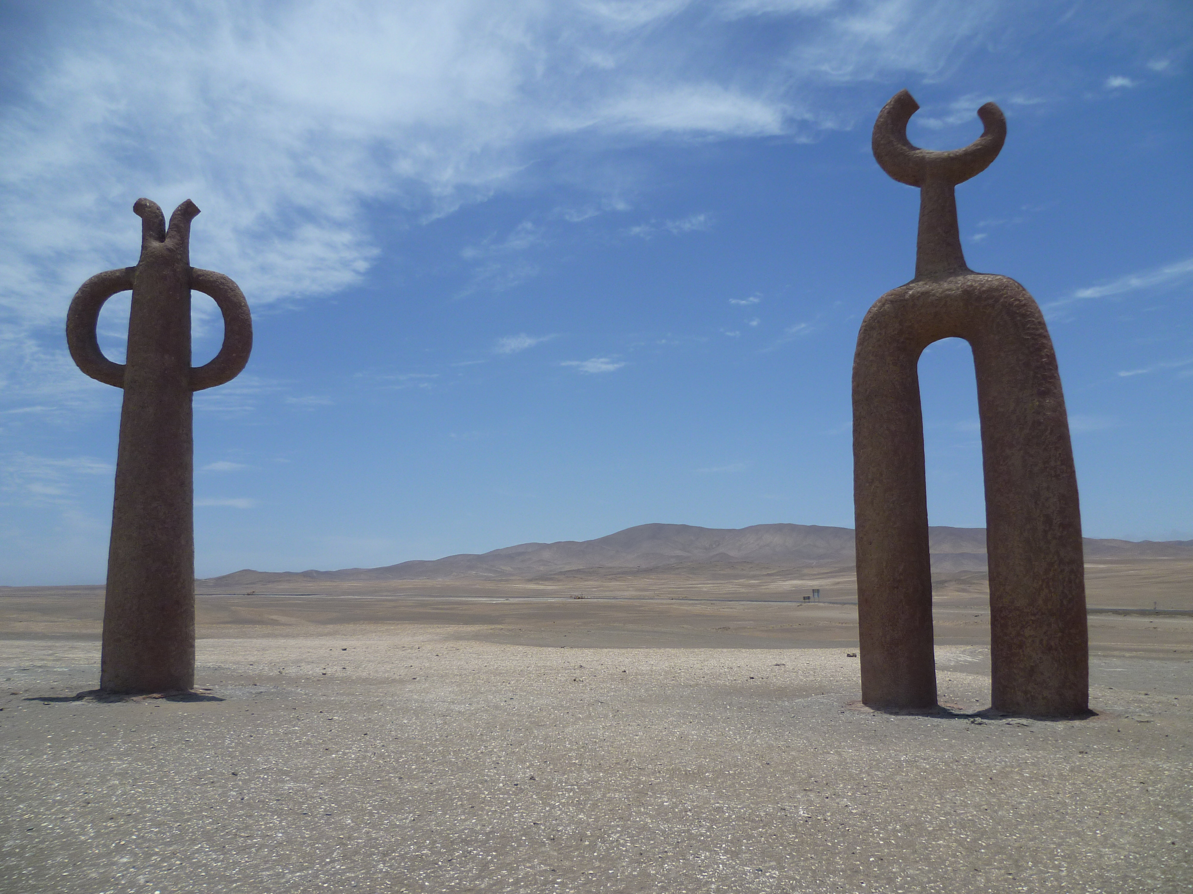 Presencias Tutelares a 22 kms al sur de Arica